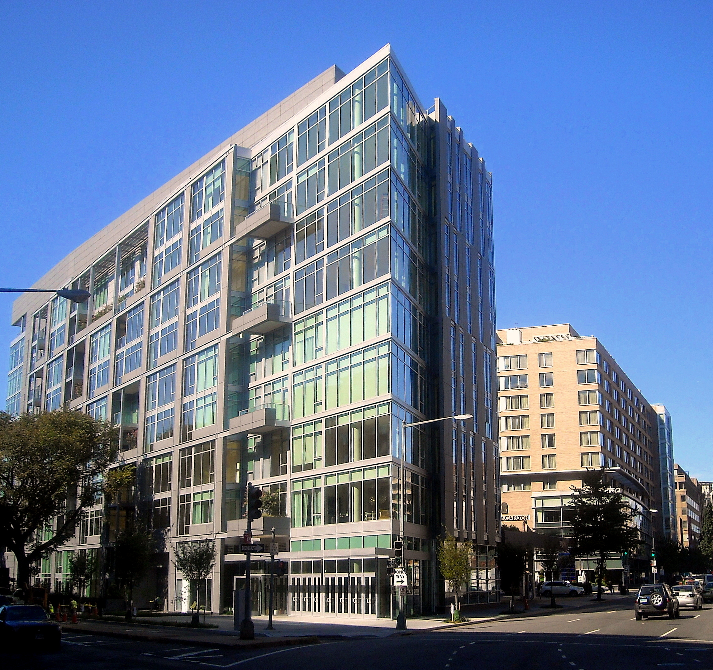 Facing west on M Street, N.W., – near the intersection of 22nd Street, M Street, and New Hampshire Avenue – in the West End neighborhood of Washington, D.C. 22 West (left), a 92-unit, 11-story, luxury condominium, was built by real estate developer Anthony Lanier of EastBanc, Inc. Designed by the architectural firm Shalom Baranes Associates, 22 West is the city's first residential building to feature a zinc-and-glass facade. The $120 million project was completed in 2008. The Ritz-Carlton, Washington, D.C., (background) is a 300-room, 11-story, Five Diamond Ritz-Carlton hotel built in 2000. The adjoining, 162-unit condominium, The Residences at The Ritz-Carlton, Washington, D.C., – another property designed by Shalom Baranes Associates – is home to several notable individuals, including U.S. Senate Majority Leader Harry Reid.